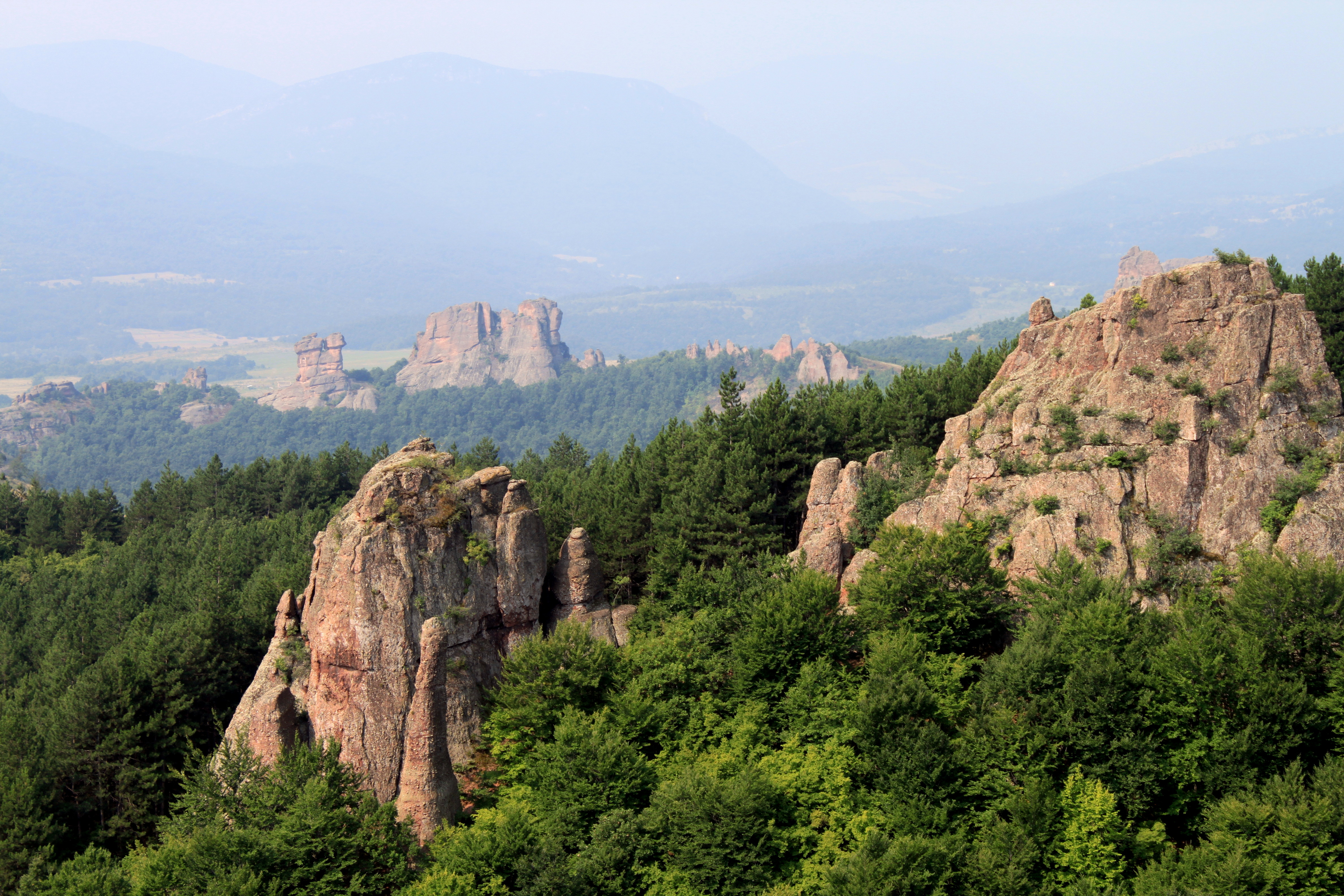 Belogradchik Rocks